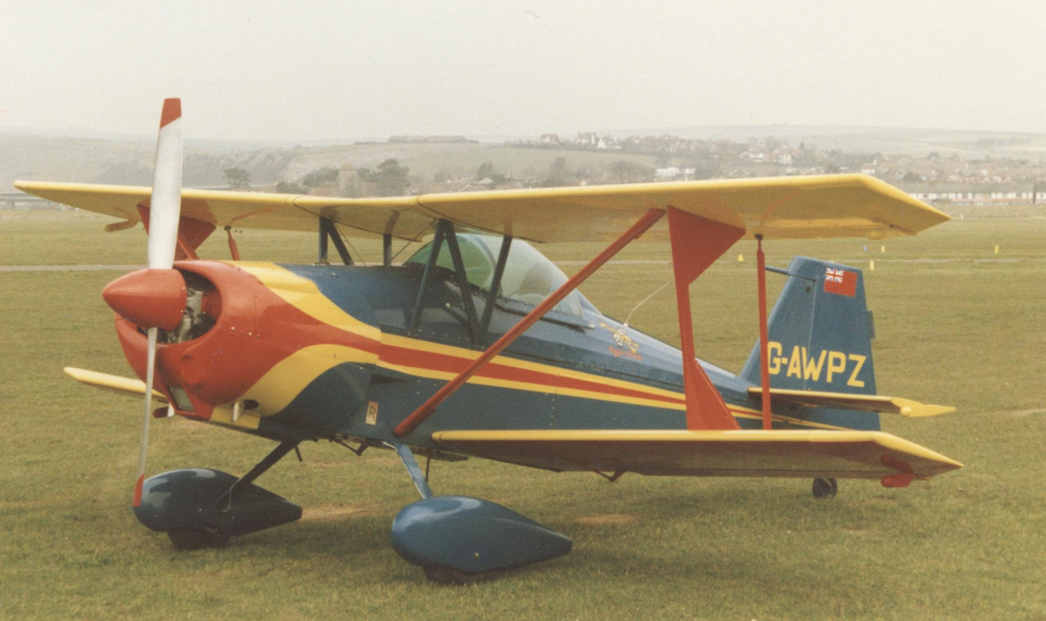 Andreasson BA-4B G-AWPZ at Shoreham Airport. Aircraft was built in Sweden.